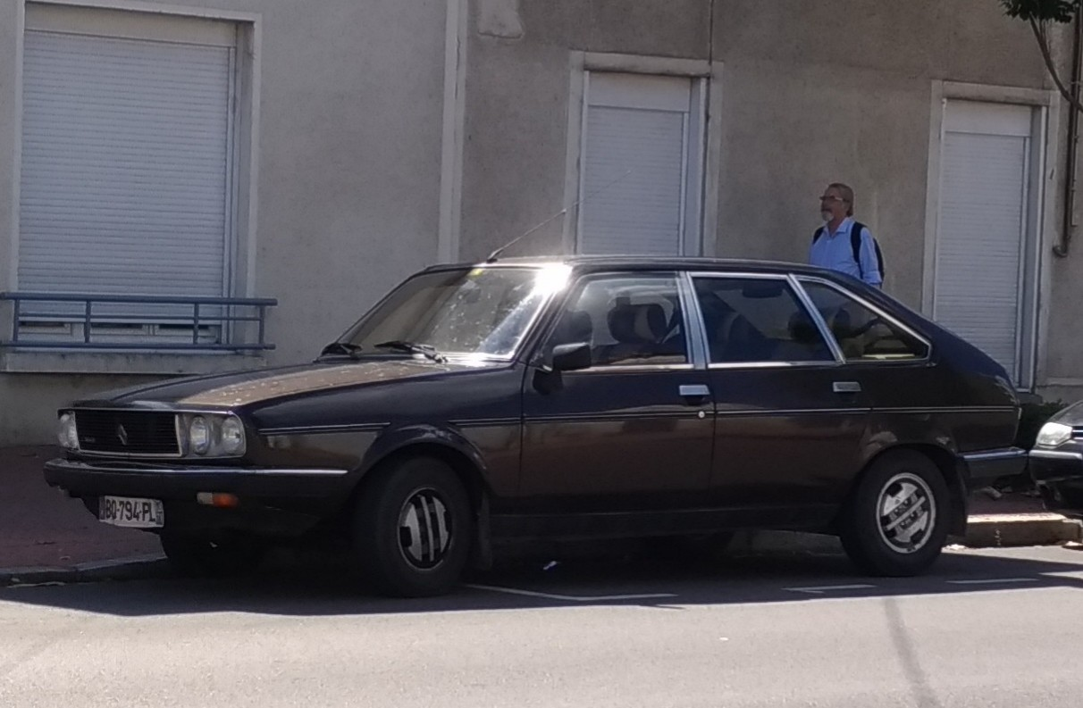 1981 Renault 30 (2.0 TD 81 hp) at Chalon sur Saone